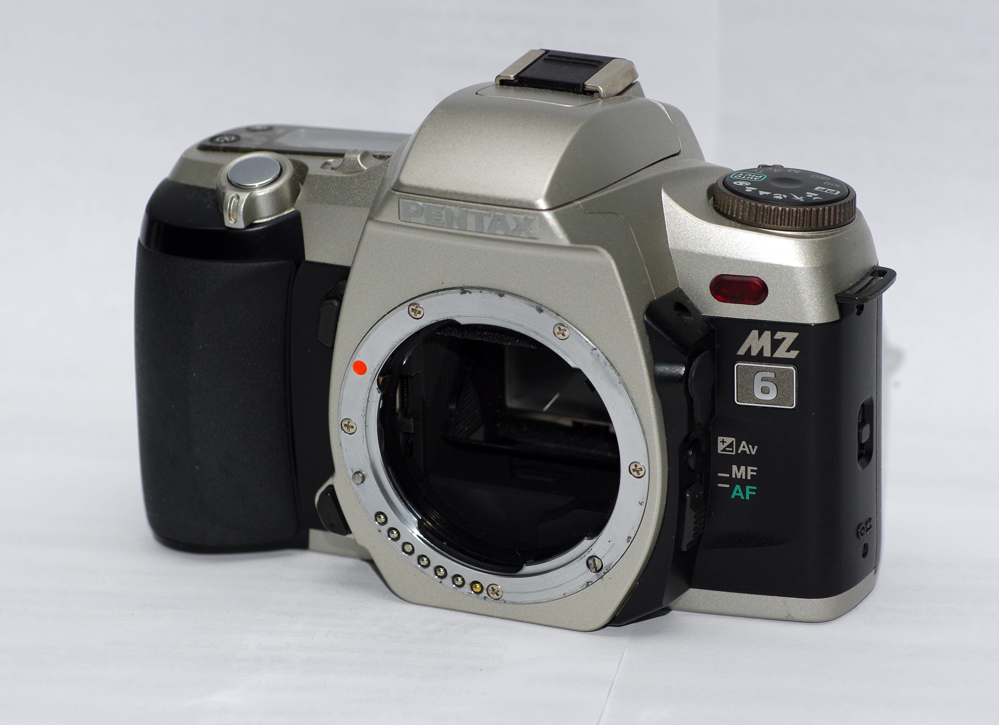 Pentax MZ-6 SLR camera